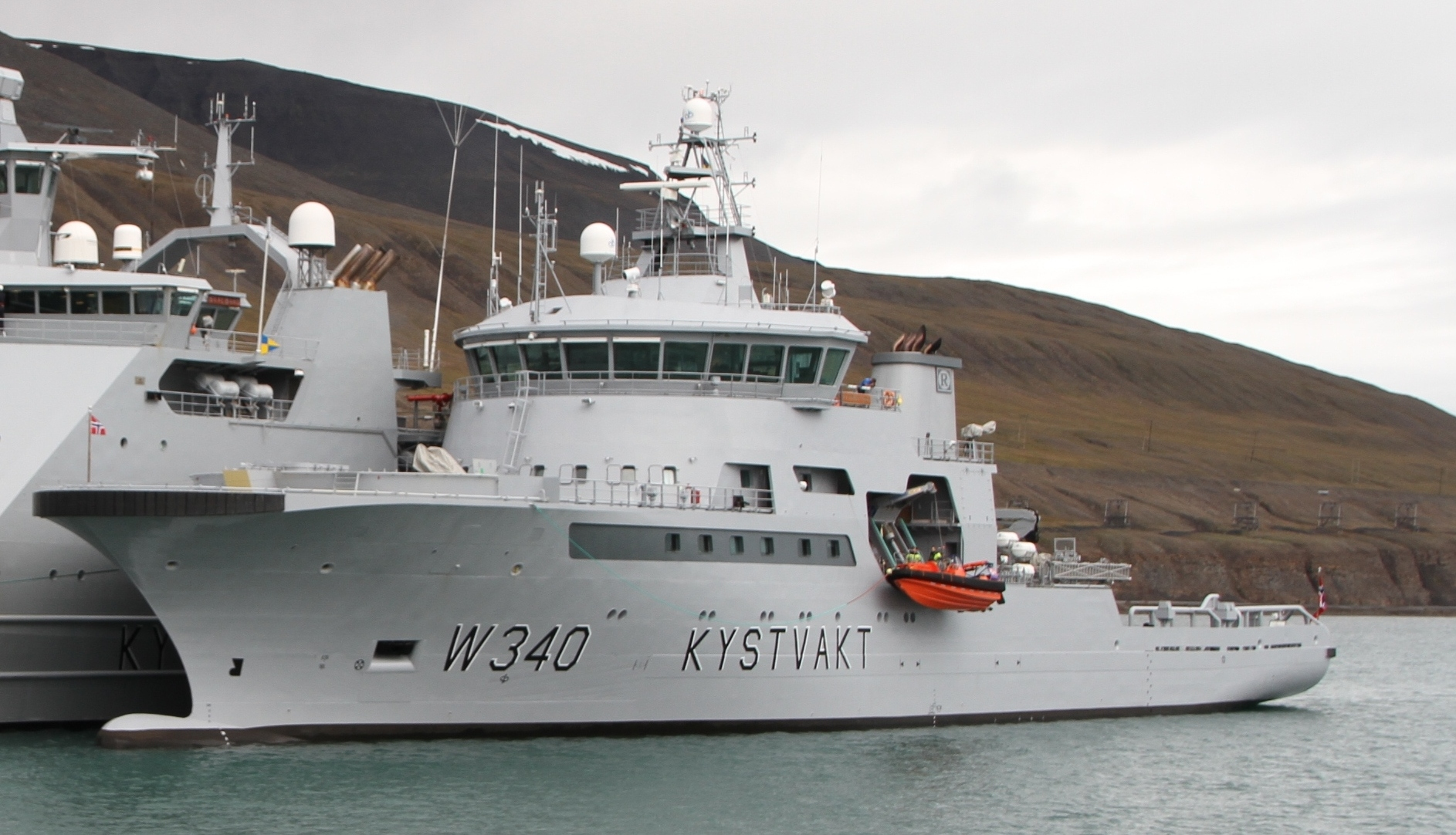 KV BArentshav, a norwegian coast guard vessel, at port in Longyearbyen, Svalbard.